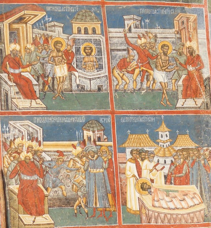 Fresco from the Voronet monastery